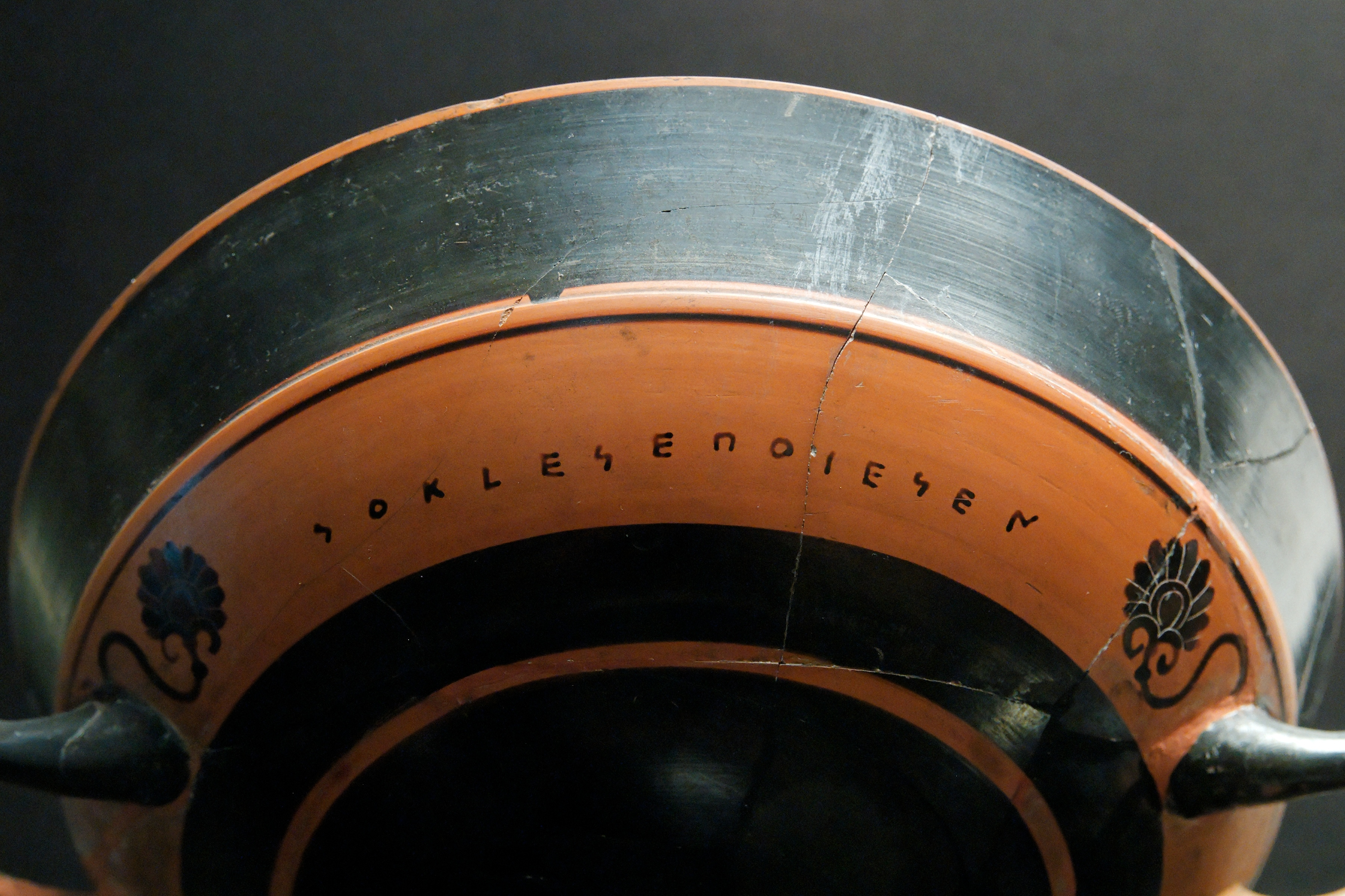 Attic black-figure kylix bearing the signature of Sokles ("Soklēs epoiēsen", "Sokles made (me)"), 570–560 BC.